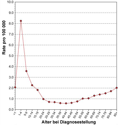 Age-specific incidence of acute lymphoblastic leukemia in the white population according to SEER date.